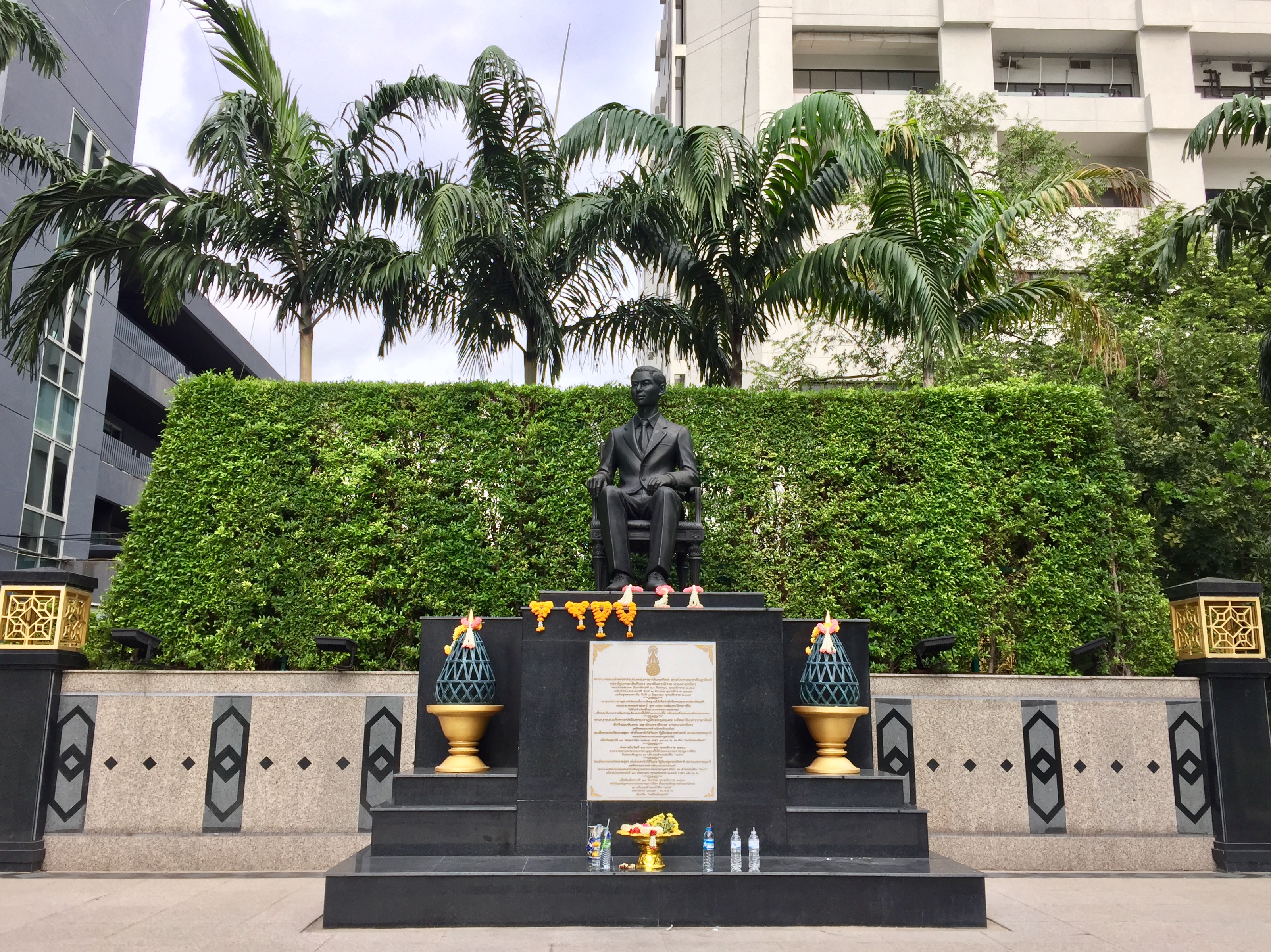 The statue of King Ananda Mahidol in the Central area of King Chulalongkorn Memorial Hospital